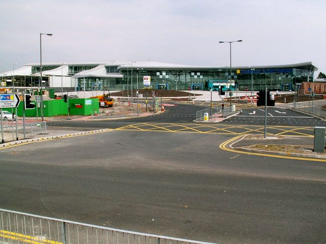 South Parkway. Liverpool's new park and ride with train, bus, and airport links.